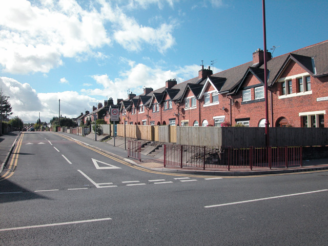 Shotton Shotton township expanded rapidly with the establishment of John Summers steel works on Dee marshes.